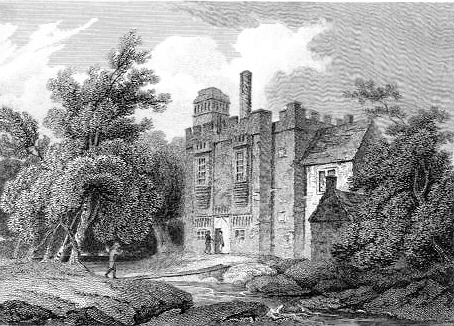 Rye House in Hertfordshire. London : Published by Vernor, Hood & Sharpe, Poultry, Feby1, 1807